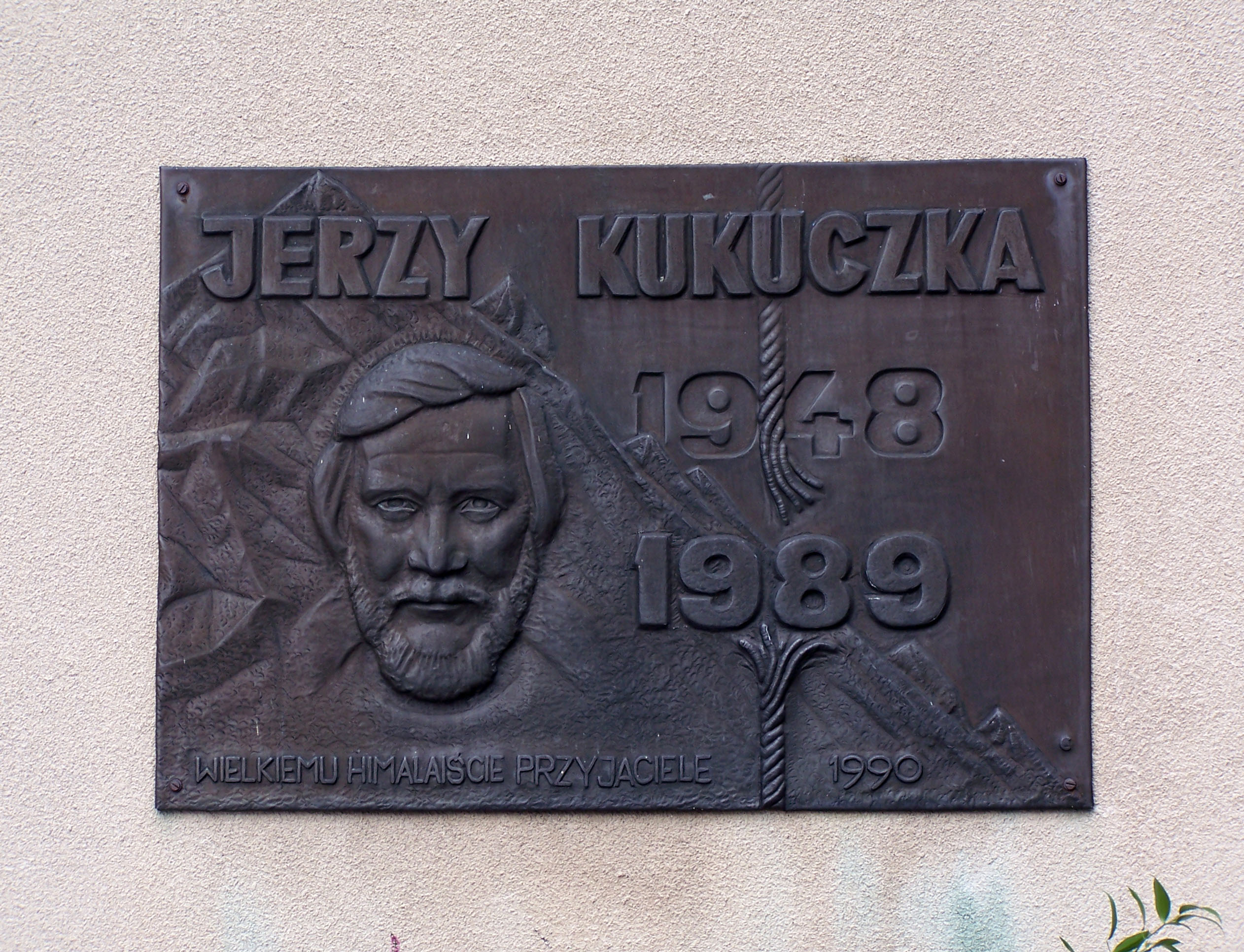 Memorial plaque to mountaineer Jerzy Kukuczka in Istebna, Poland